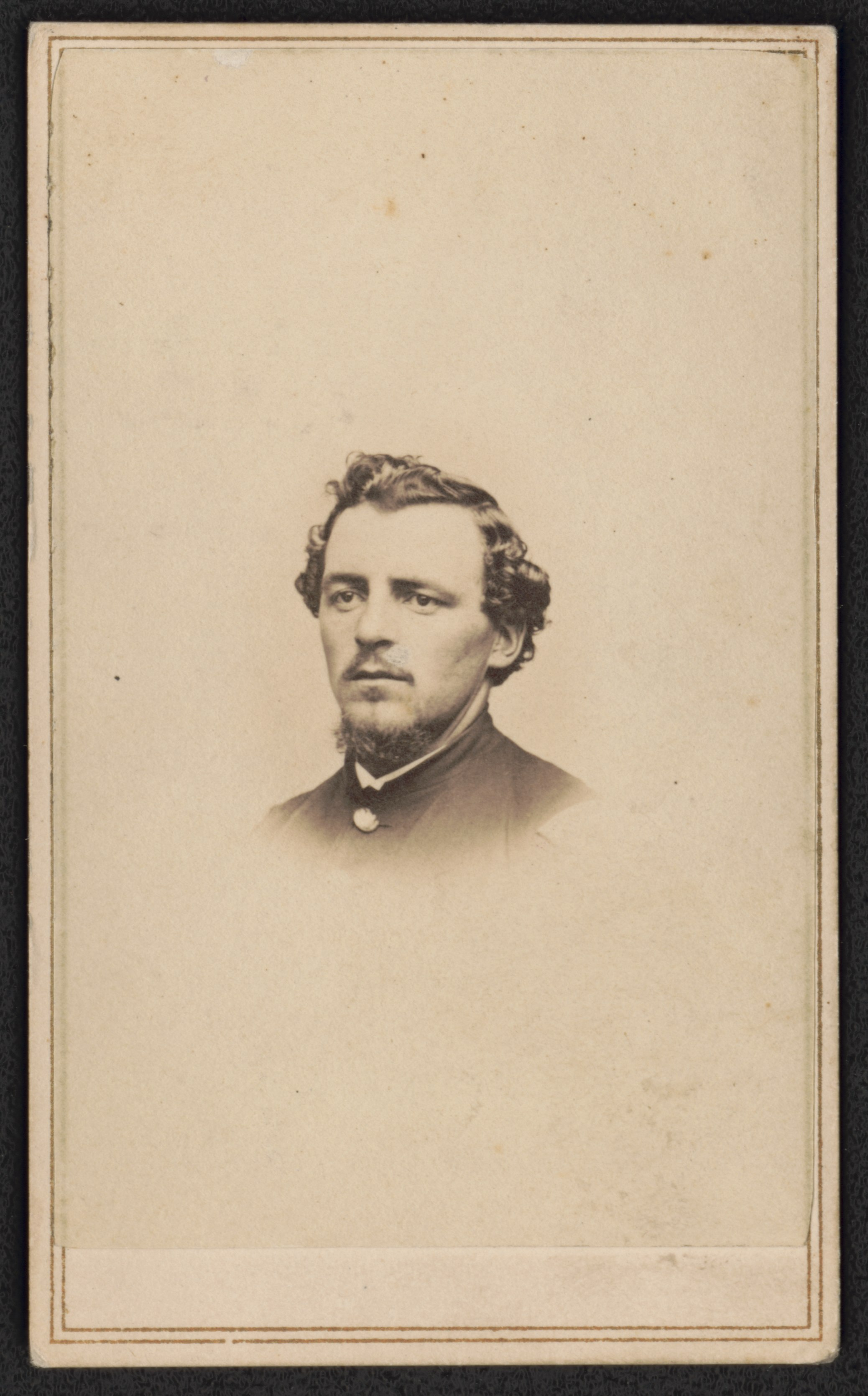 Title: Captain Charles D. Grannis of Co. A, B, and H, 44th New York Infantry Regiment, in uniform] / Anson's, 589 Broadway, opposite Metropolitan Hotel Abstract/medium: 1 photograph : albumen print on card mount ; mount 11 x 6 cm (carte de visite format)